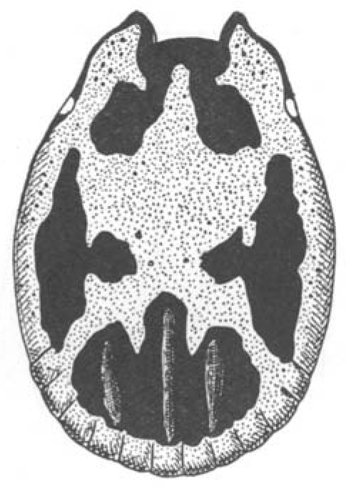 Illustration of a the ornamentation of the "normal form" of a male Rhipicephalus pulchellus.